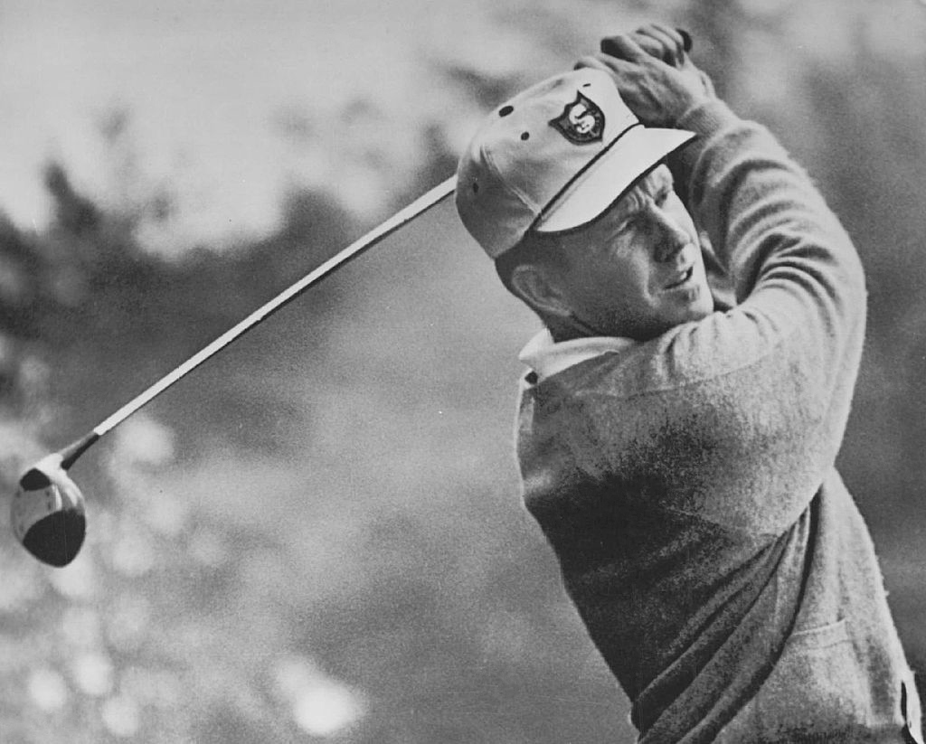 1959 Professional Golfer Gene Littler National Open 1st Round Tie Press Photo